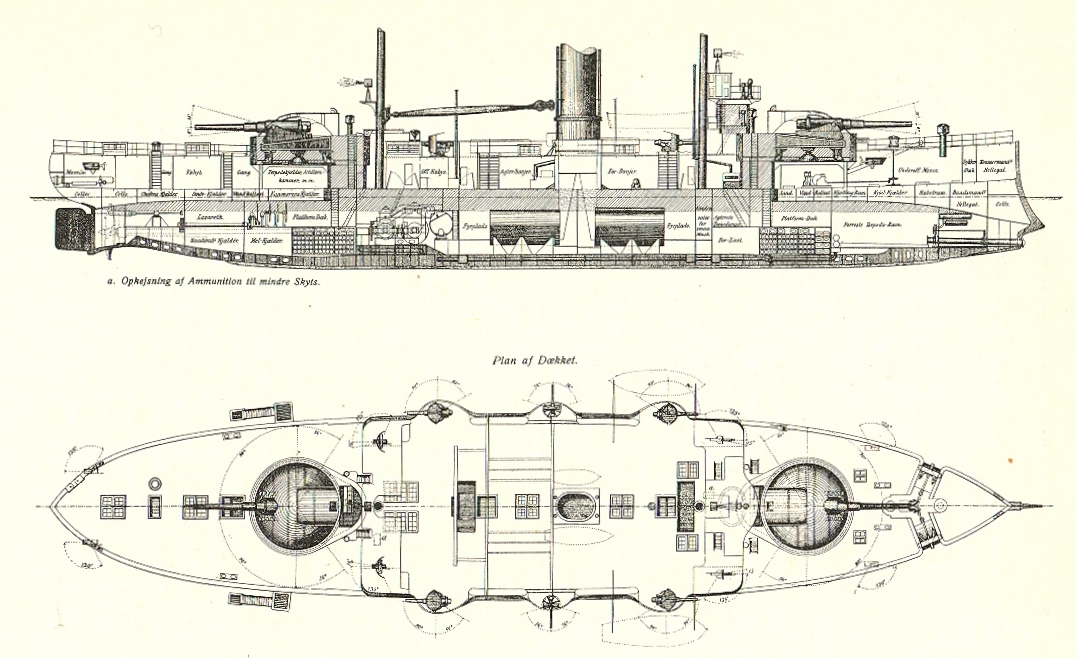 Danish Coastal Defence Ship Iver Hvitfeldt, launched 1886 and serving 1887 - 1918.